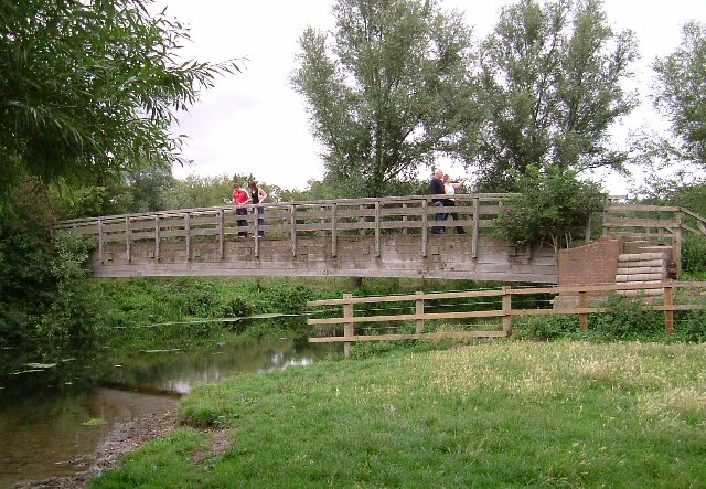 Never Too Old For Pooh-Sticks! Fen Bridge on the River Stour between Flatford and Dedham. The young couple really were playing Pooh-Sticks! The photo was taken looking from The Essex bank back towards Flatford